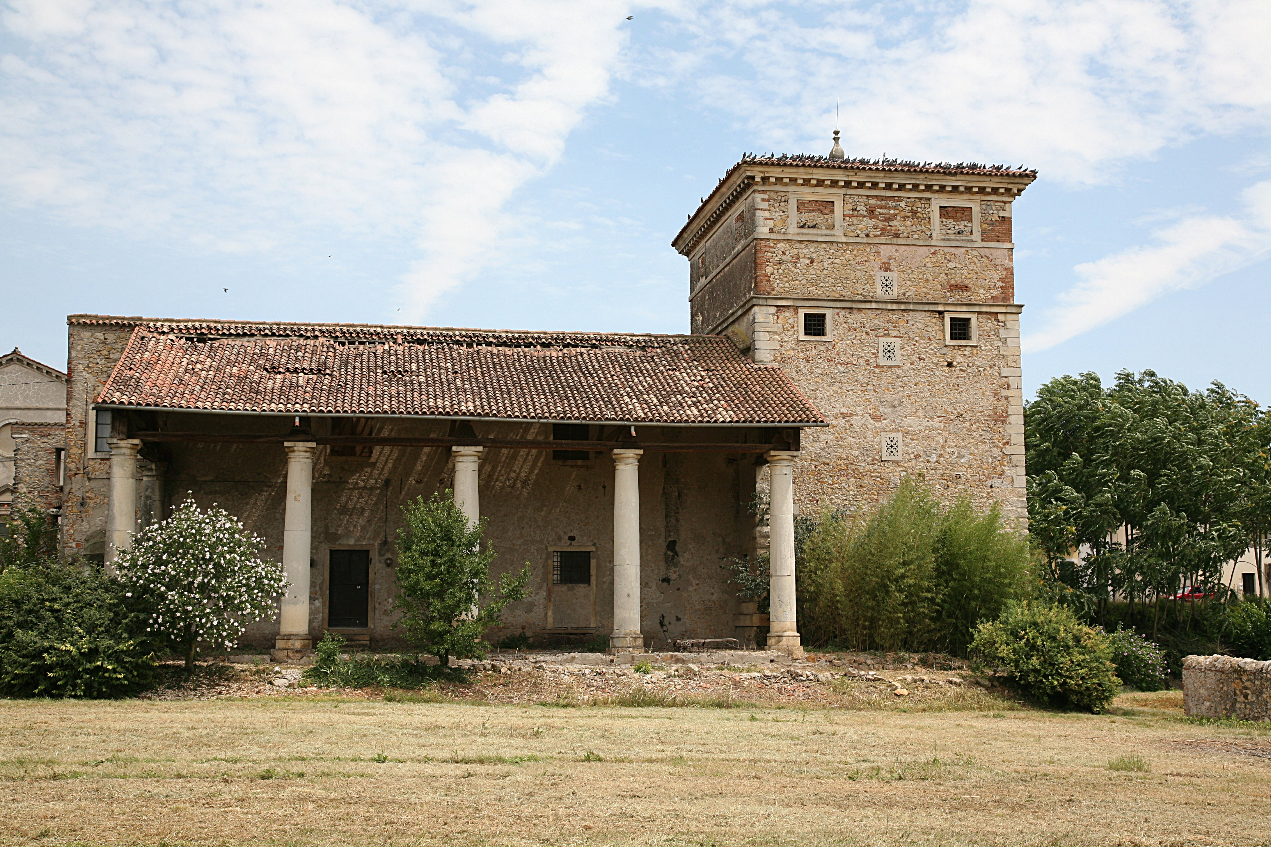 Arcades of Villa Trissino at Meledo di Sarego by Andrea Palladio